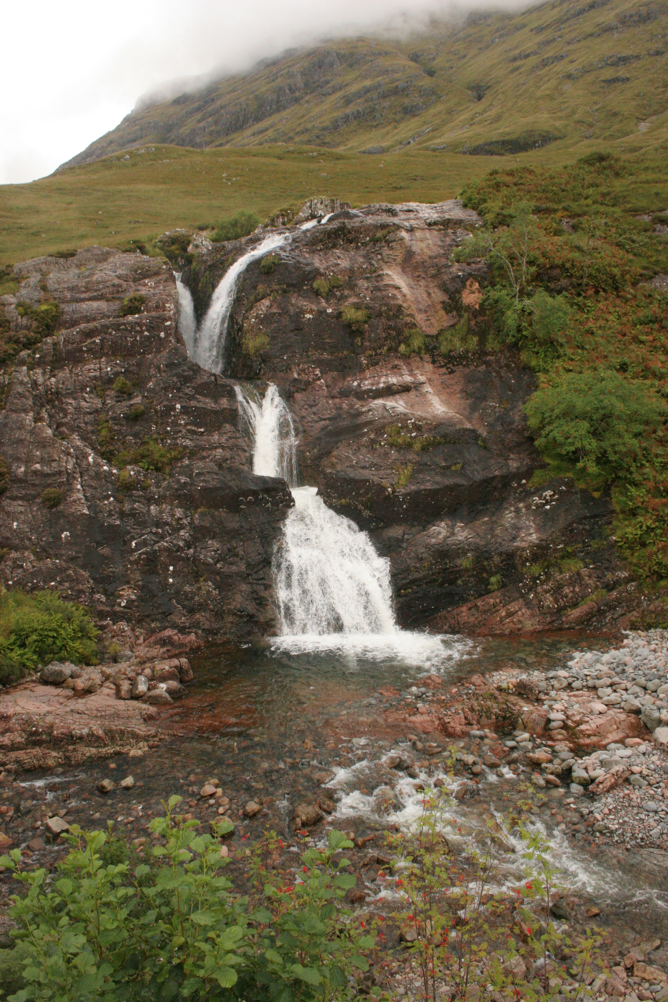 Meeting of Three Waters waterfall